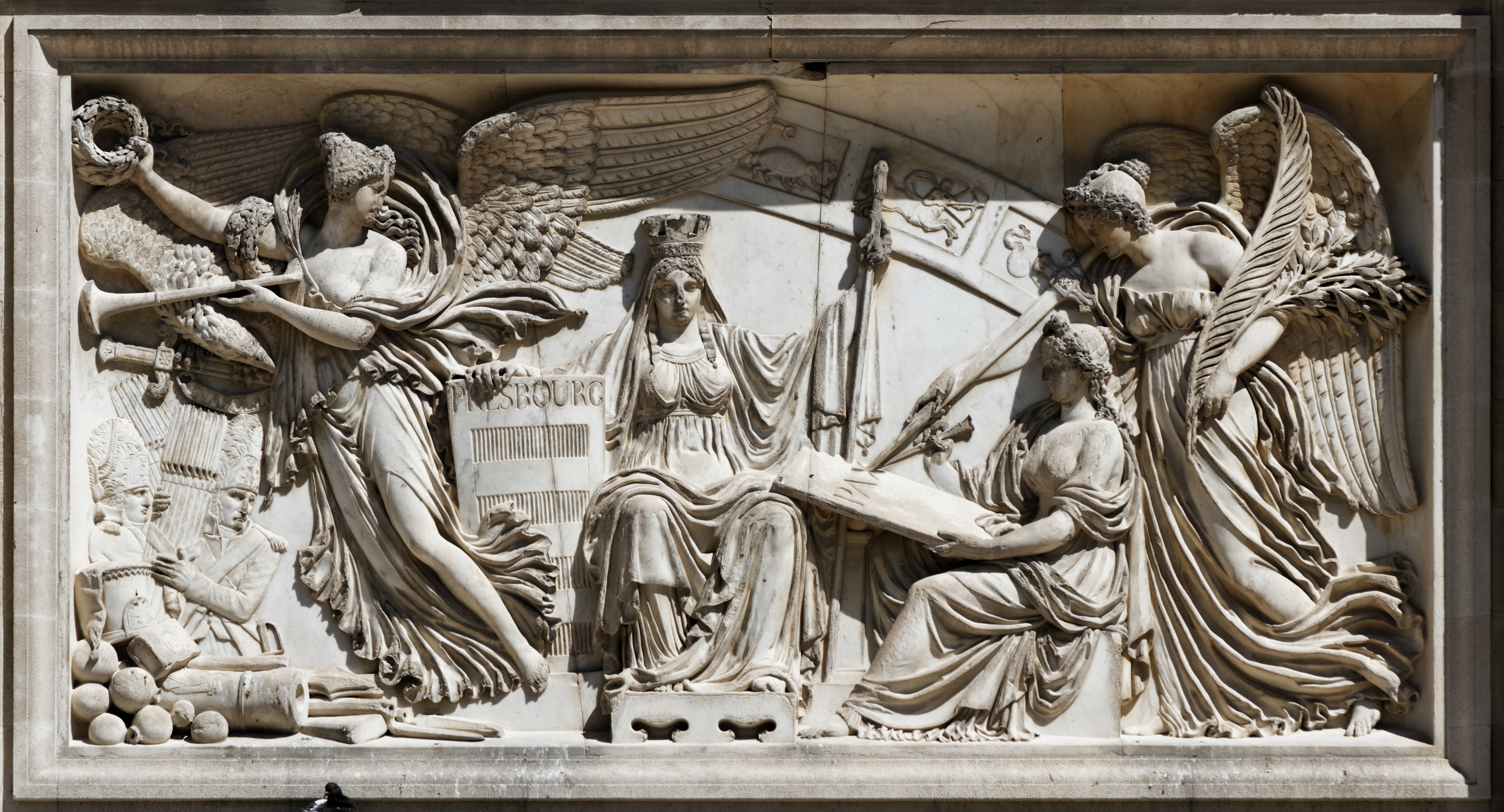 La Paix de Presbourg by Jacques-Philippe Le Sueur, Arc de Triomphe du Carrousel, Paris, France.